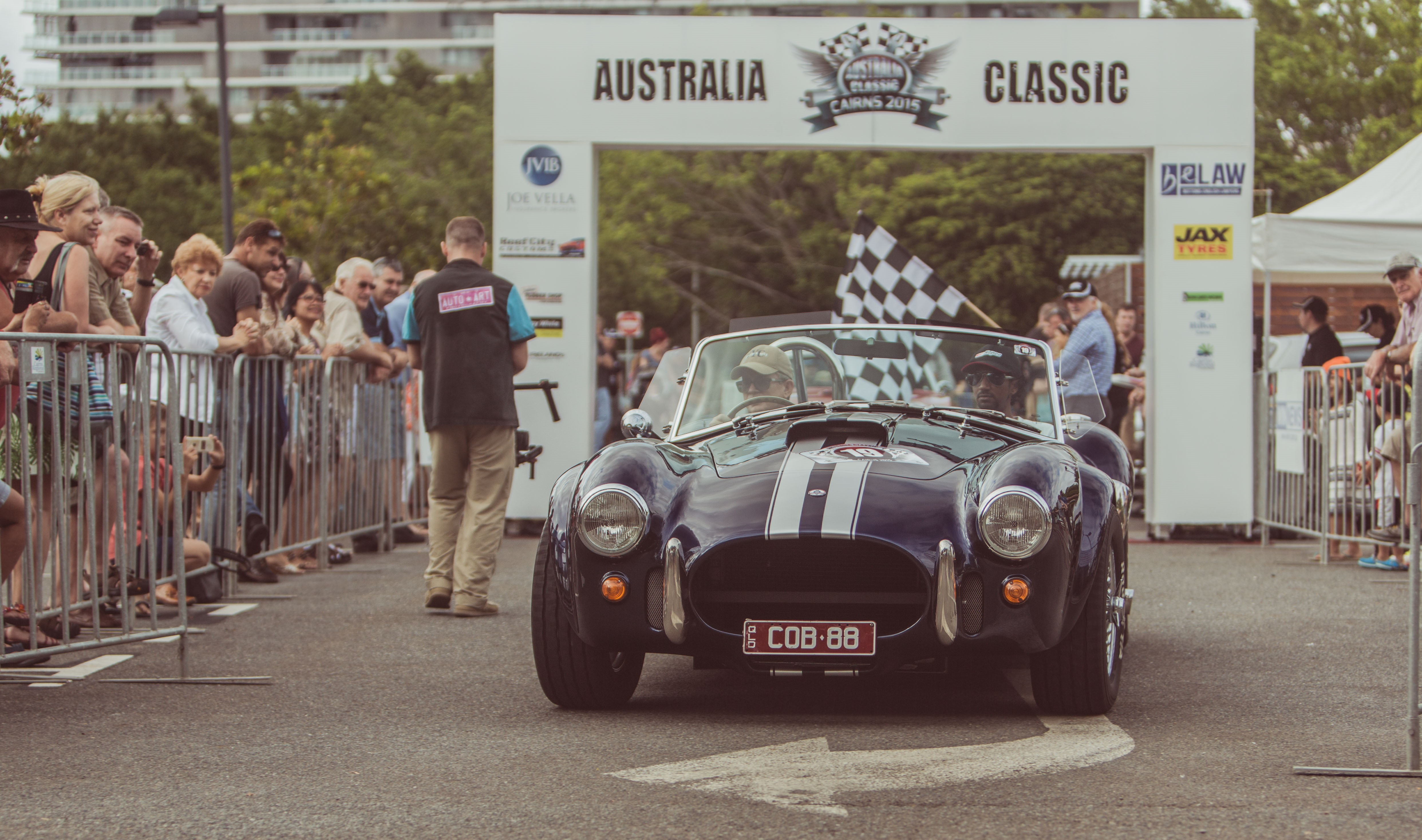 AC Cobra at the start gate of Australia Classic 2015 Cairns - a 1/100 regularity rally in Australia. Photo credit: Auto Art Photography. Copyright: Australia Classic. Other information As above, I have unlimited permission to use the picture, as I also use it on the .au website, on the AC Facebook and G+ accounts and anywhere we choose, as the photo was taken under my company's contract.